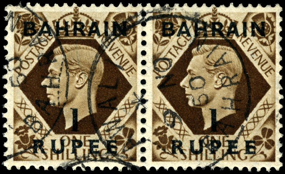 Bahrain 1-rupee overprint stamps of 1948